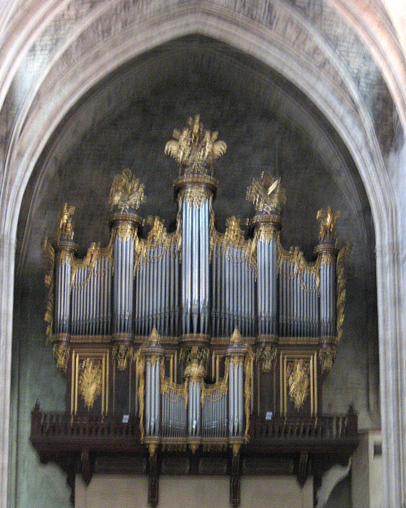 Montpellier - Cathedral - Organ (L'Epine, 1778; Cavaillé, 1809; Merklin, 1878; Merklin and Kuhn, 1926; Kern, 1979)